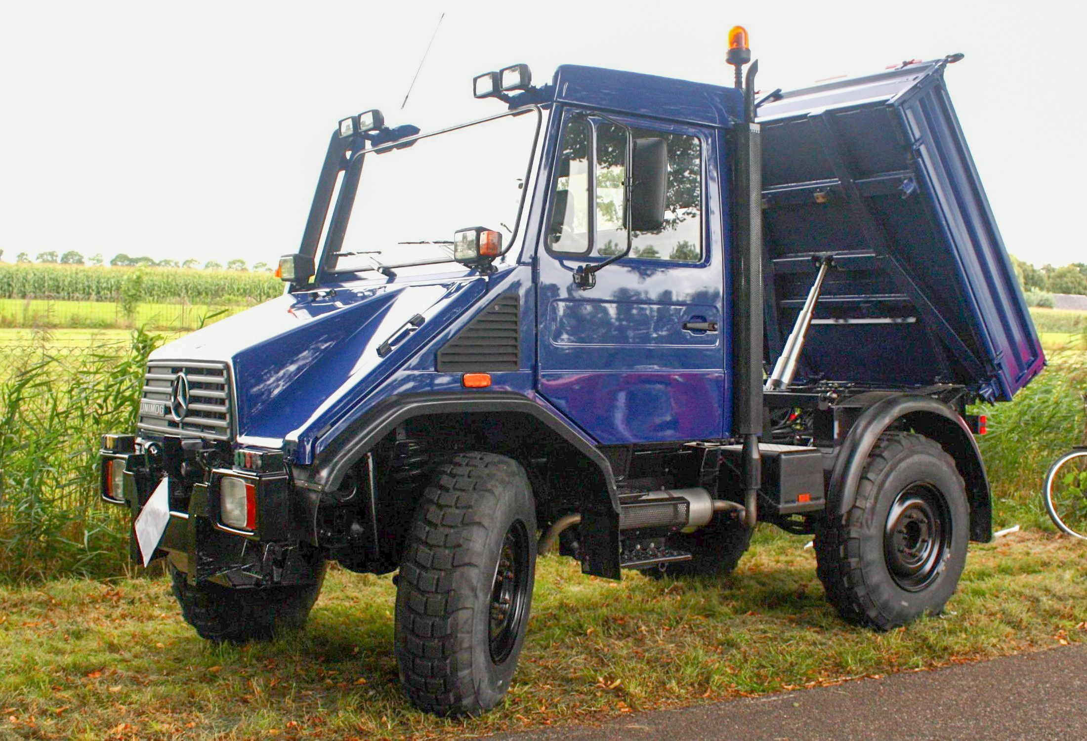 Blue Unimog 408 or 418 pickup truck